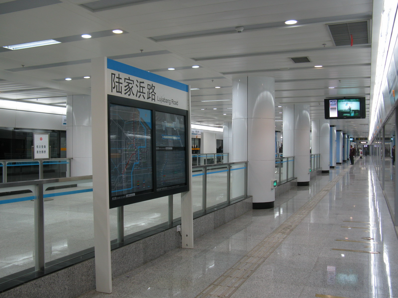 陆家浜路站 8号线月台 Line 8 Platform of Lujiabang Road Station